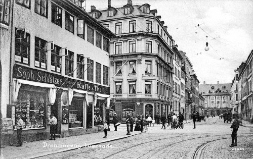 Vintage photo of Dronningens Tværgade in Copenhagen, Denmark